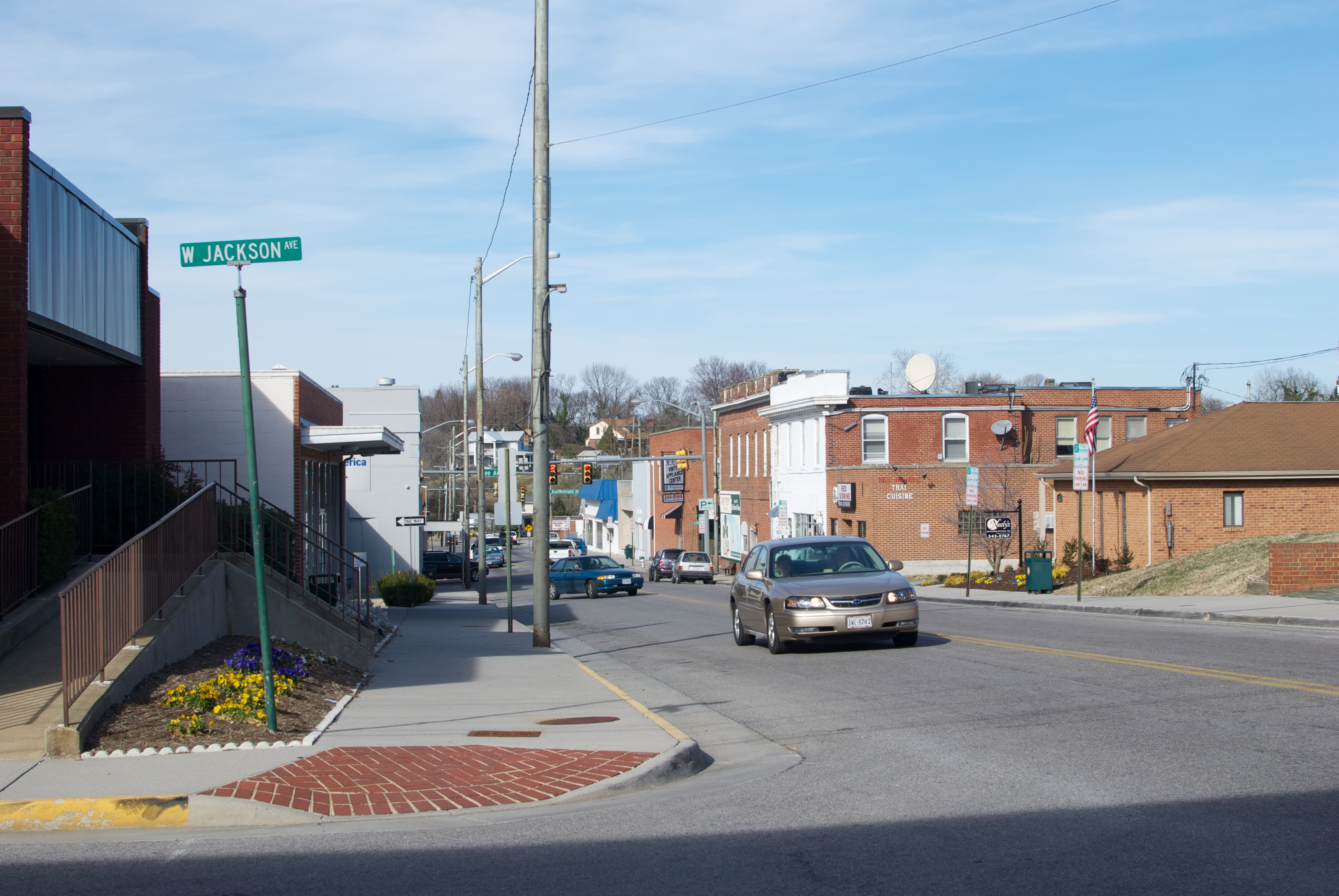 Image showing downtown area of Vinton, Va